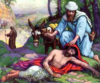 The Good Samaritan.